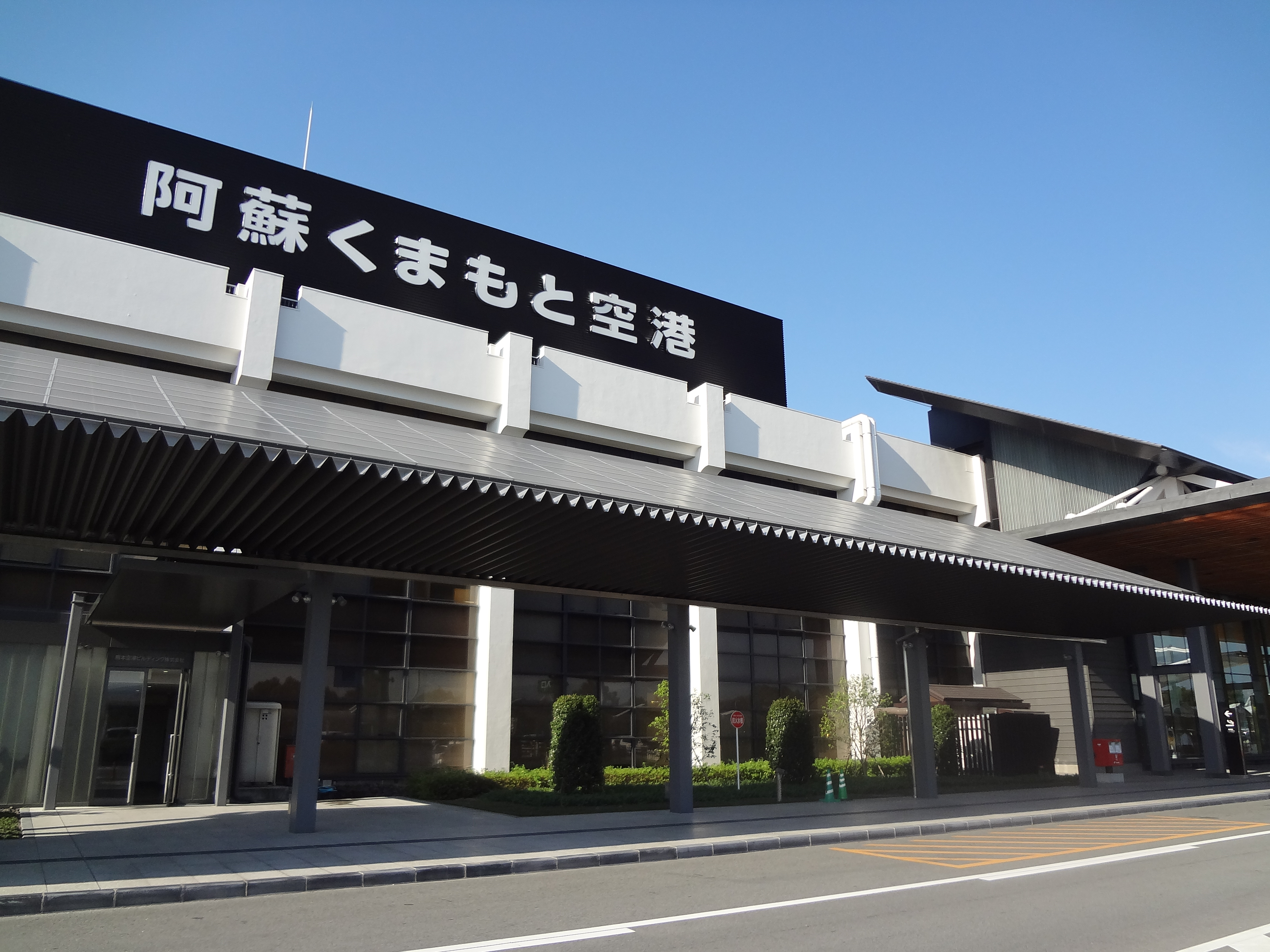 Kumamoto Airport (KMJ) Domestic Terminal Fecade